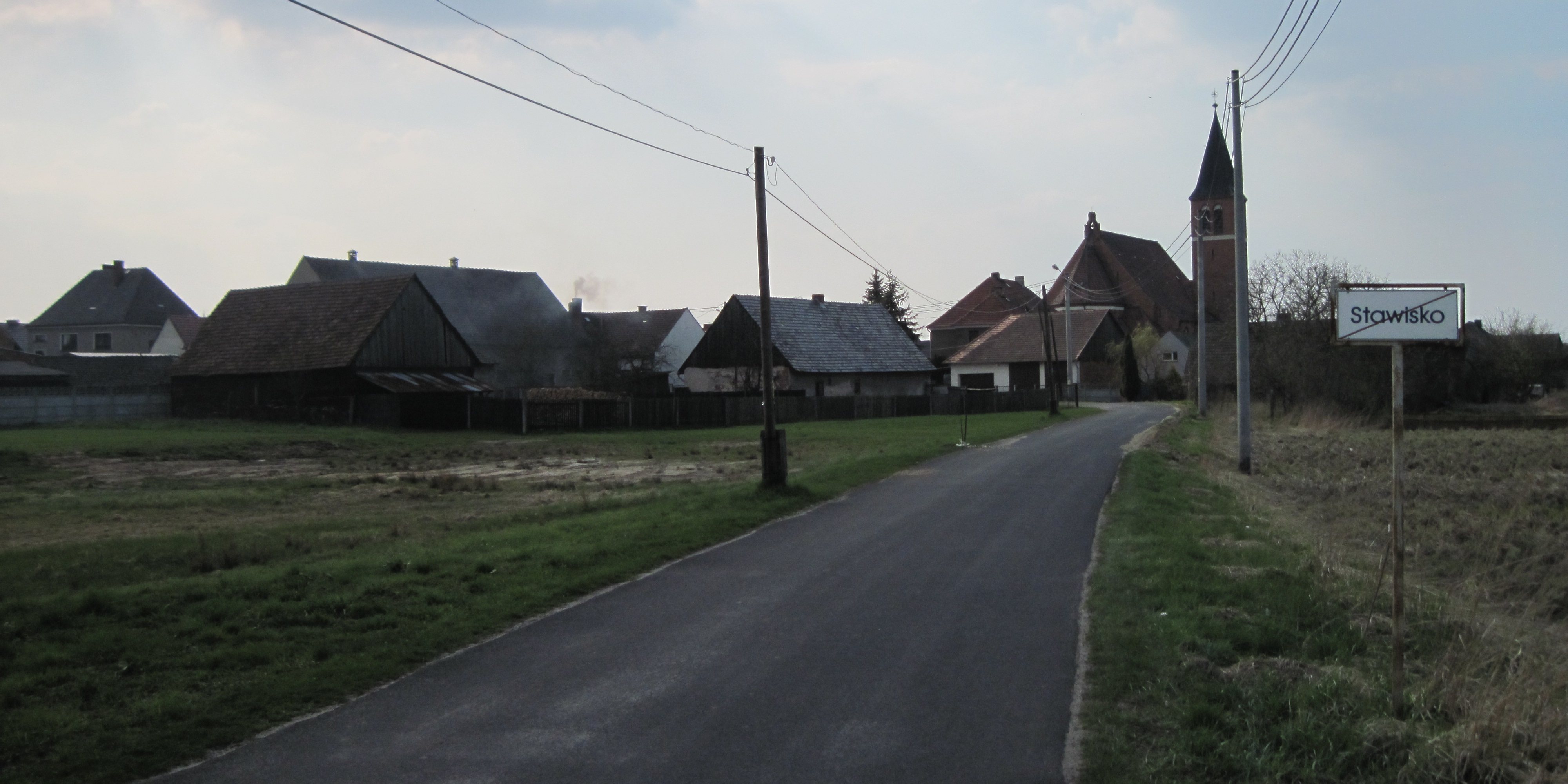 St. Stephen Church in Brynica seen from the village part called Stawisko